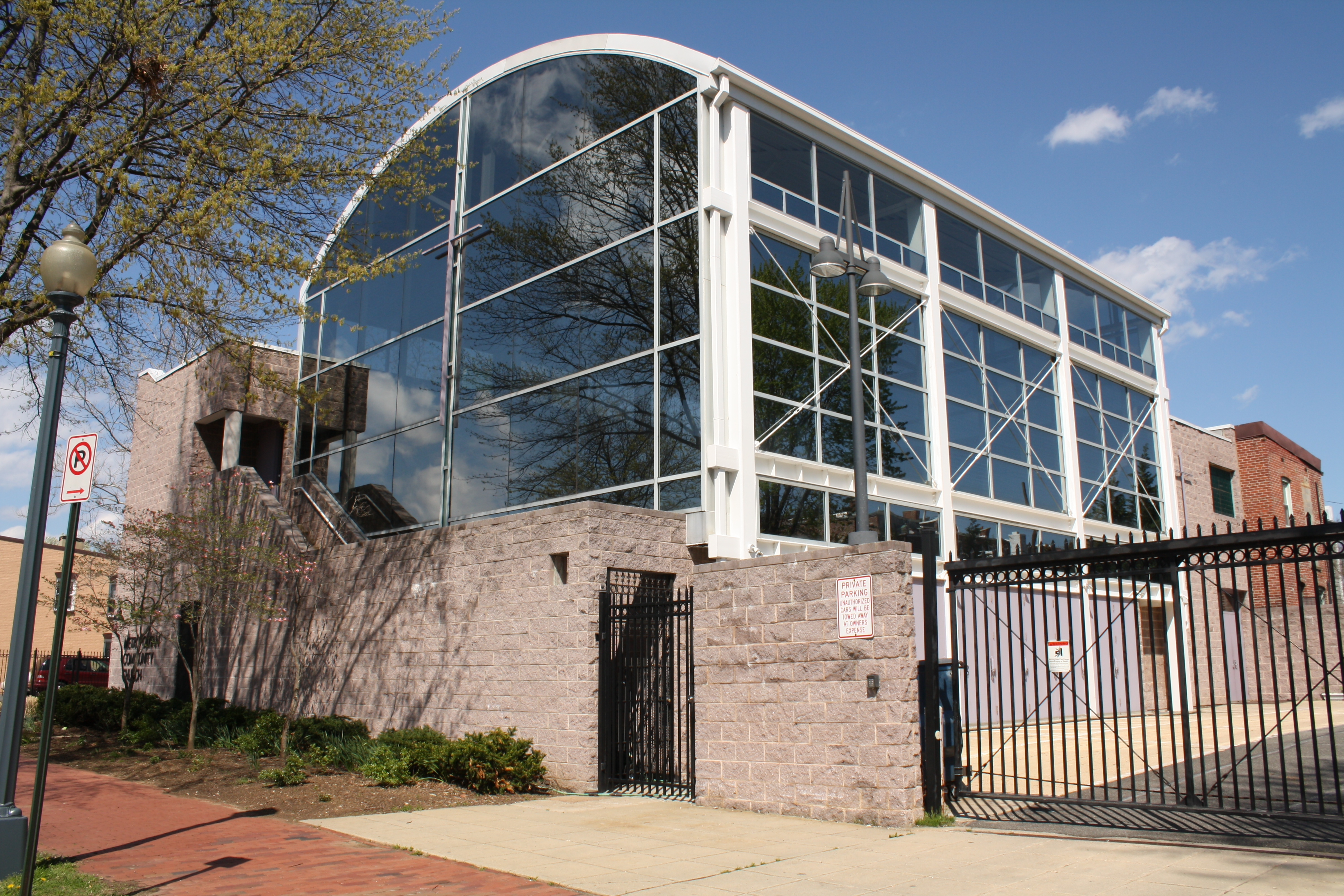 Metropolitan Community Church of Washington, D.C., located at 474 Ridge Street NW in the Mount Vernon Square neighborhood.